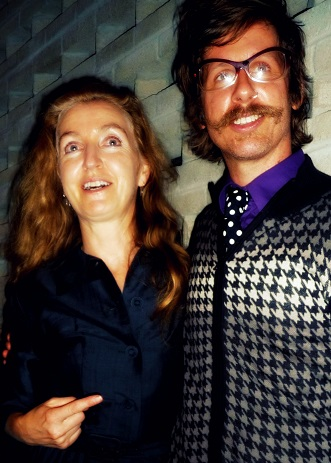 American writer Rebecca Solnit and filmmaker Christian Bruno at the San Francisco Museum of Modern Art.